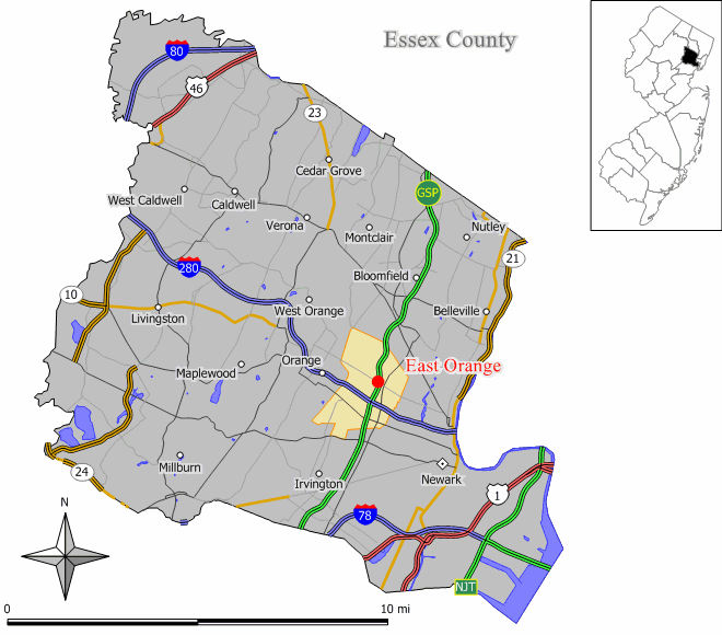 Source: Jim Irwin Original work by Jim Irwin, December 2005.